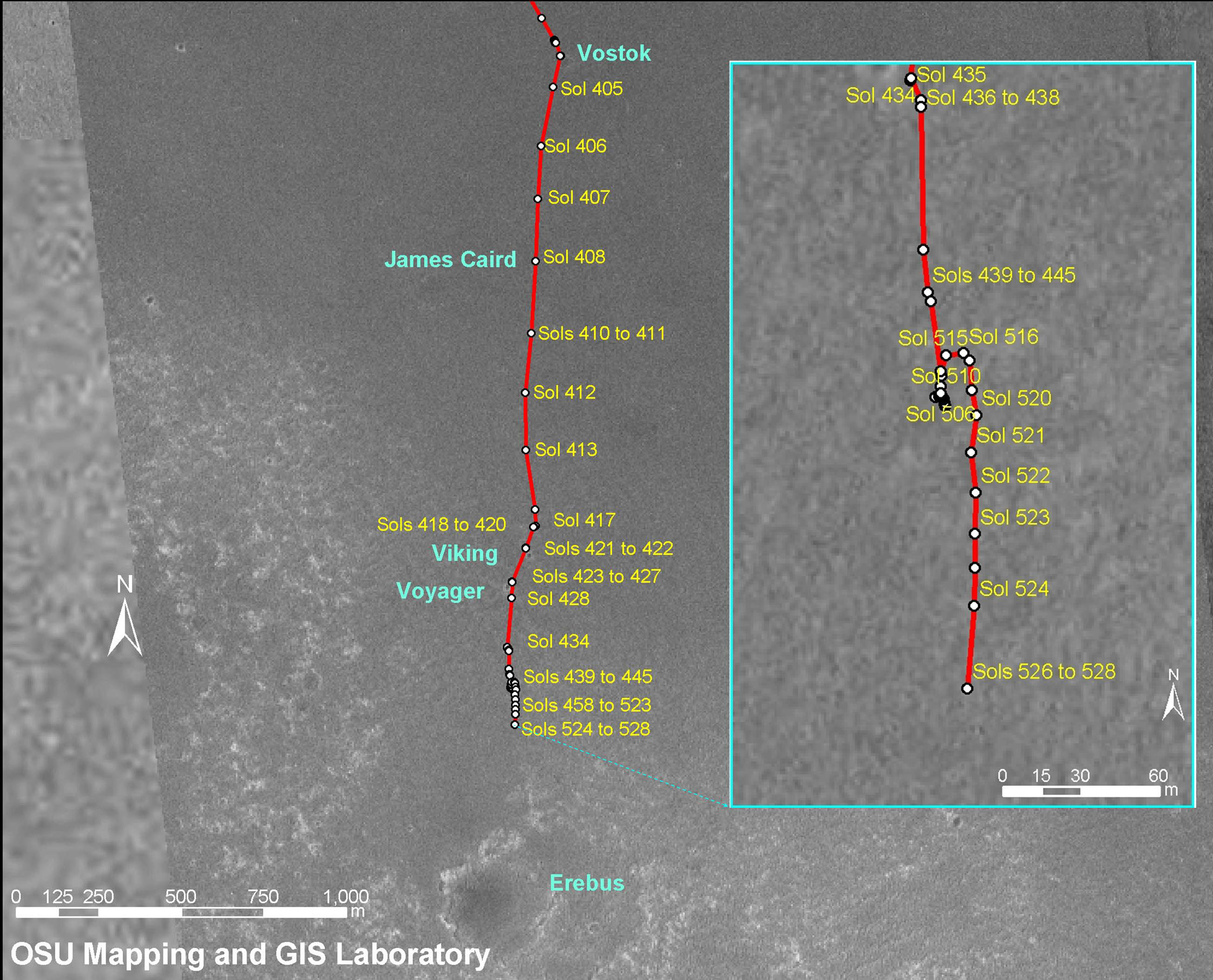 Release Date: 22-July-2005 Sol 528